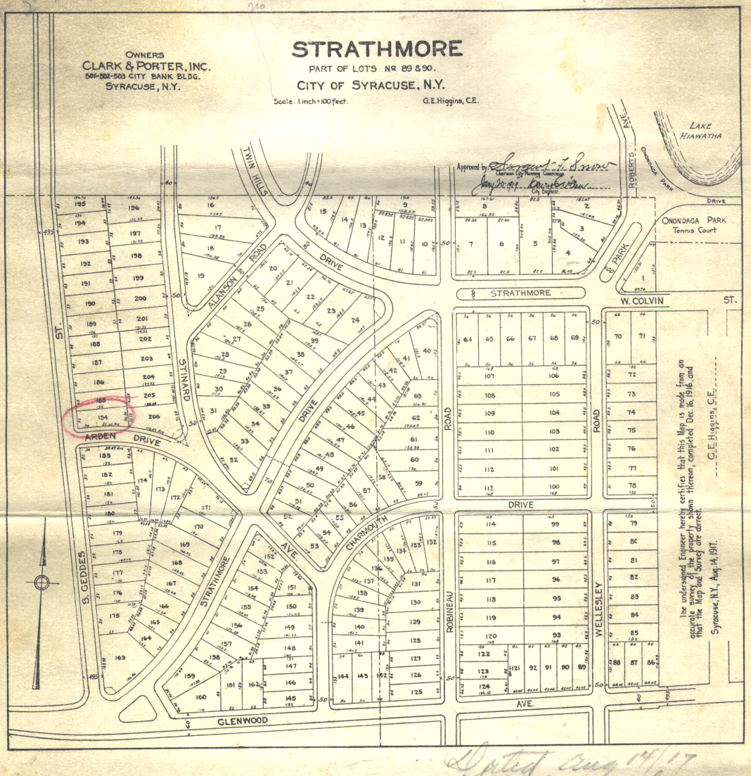 Scan of the Strathmore Neighborhood lots, as laid out by Clark & Porter. Retrieved from an Abstract of Title for one of the lots.